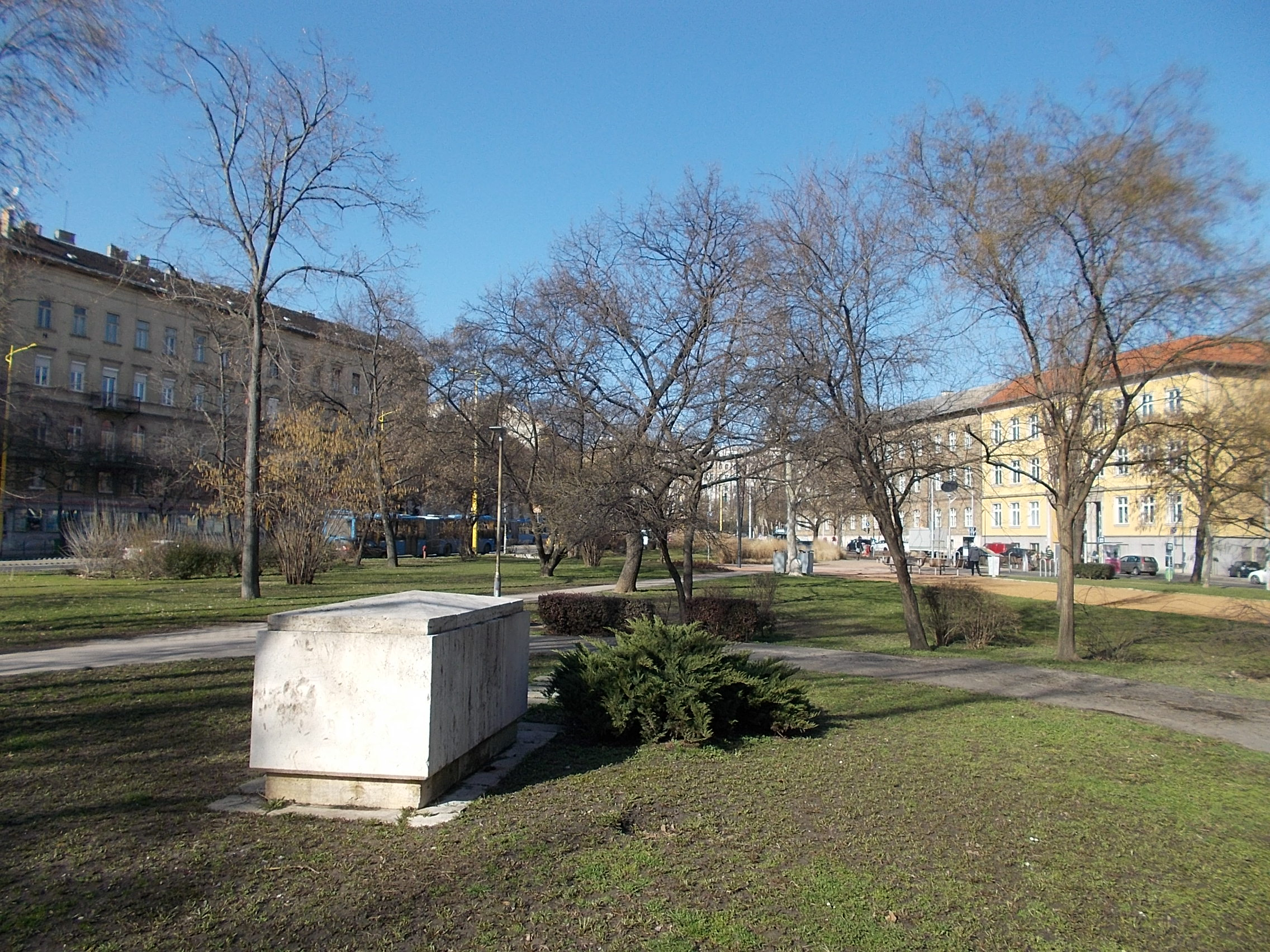 Vérmező Park. - Krisztina körút, Attila út, Krisztinaváros neighbourhood, Budapest District I.